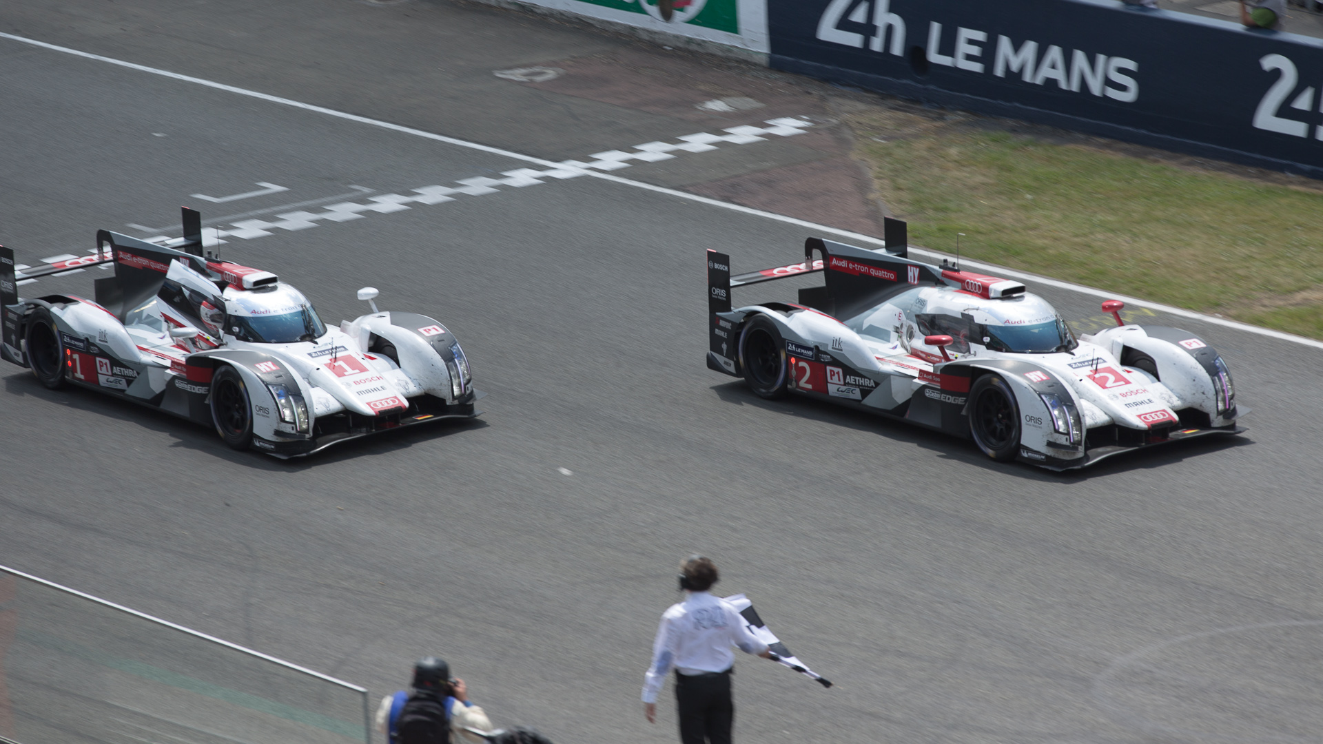 The No. 2 and No. 1 Audi R18 e-tron quattros cross the finish line to win the 2014 24 Hours of Le Mans